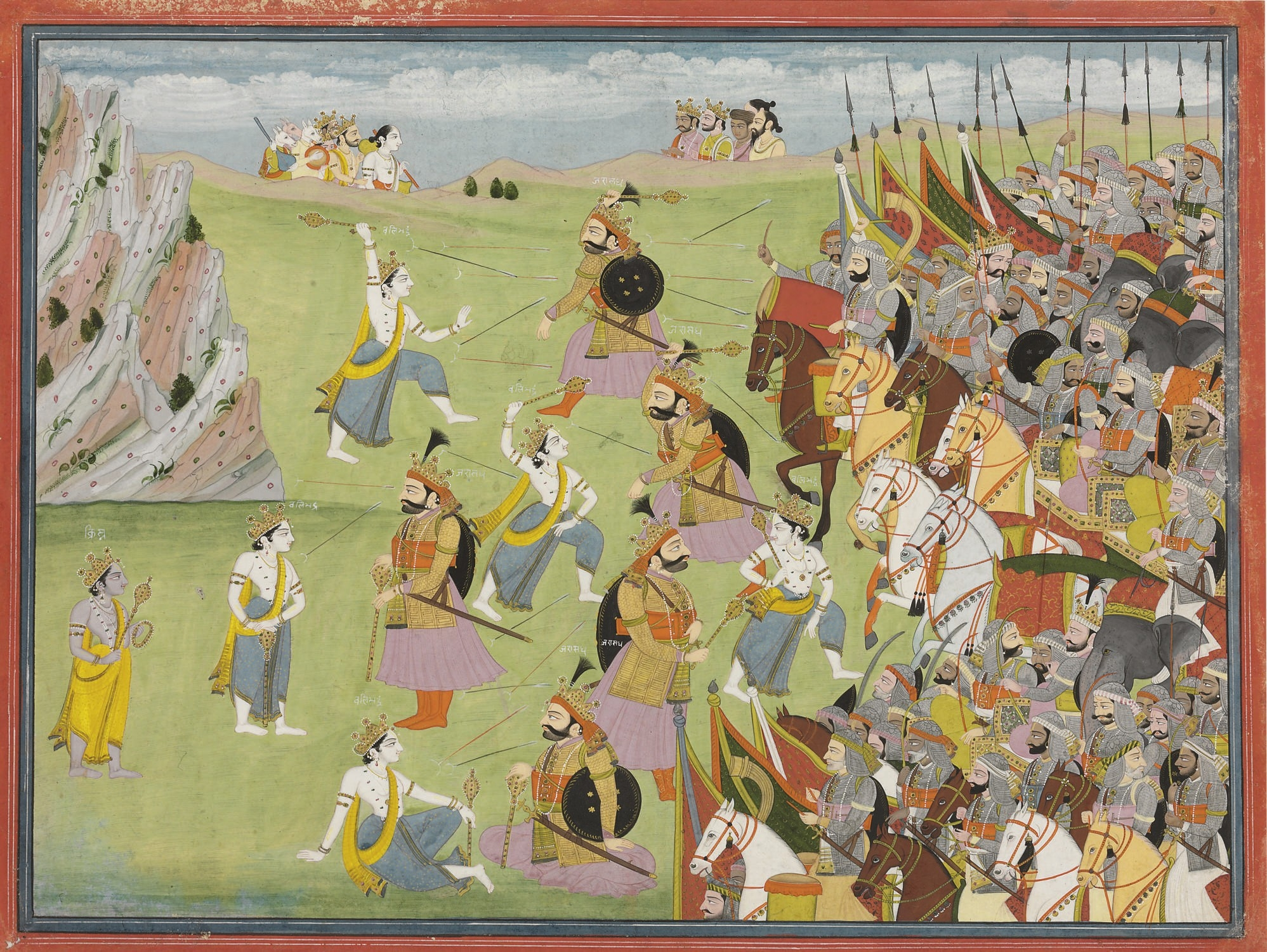 With Krishna in his yellow dhoti at lower left, Balabhadra depicted five times speaking and fighting with King Jarasandha, the army to the right and several onlookers in the background, all surrounded by red and blue borders, some figures with annotations